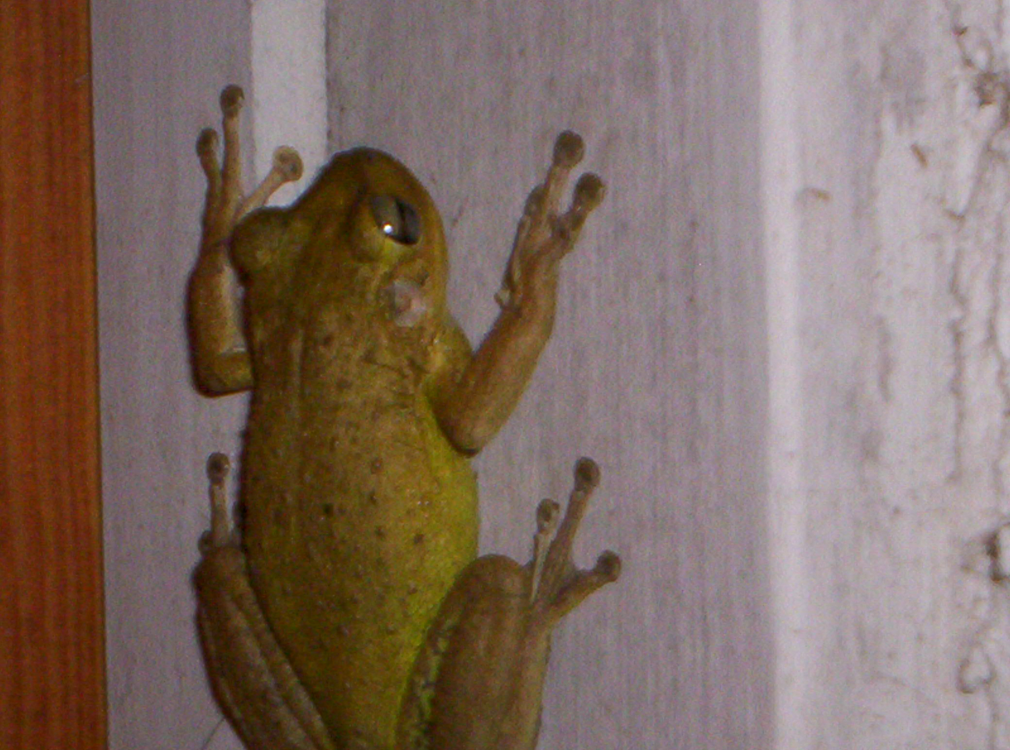 Green colored Cuban Tree Frog Photographed in Cocoa, Florida